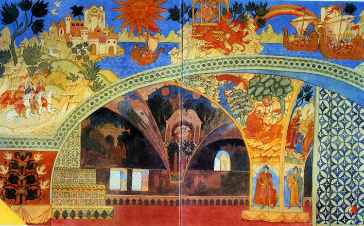 THE CHAMBER OF THE NOVGOROD COUNCIL. Stage-set design for Scene One of the opera Sadko by Rimsky-Korsakov. 1914